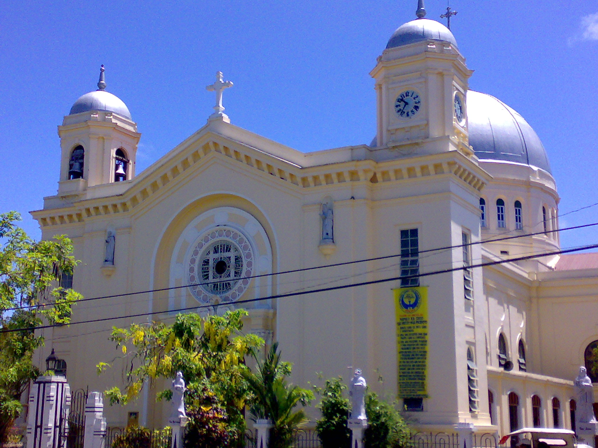 The San Diego Pro-cathedral in Silay City, Negros Occidental, Philippines.